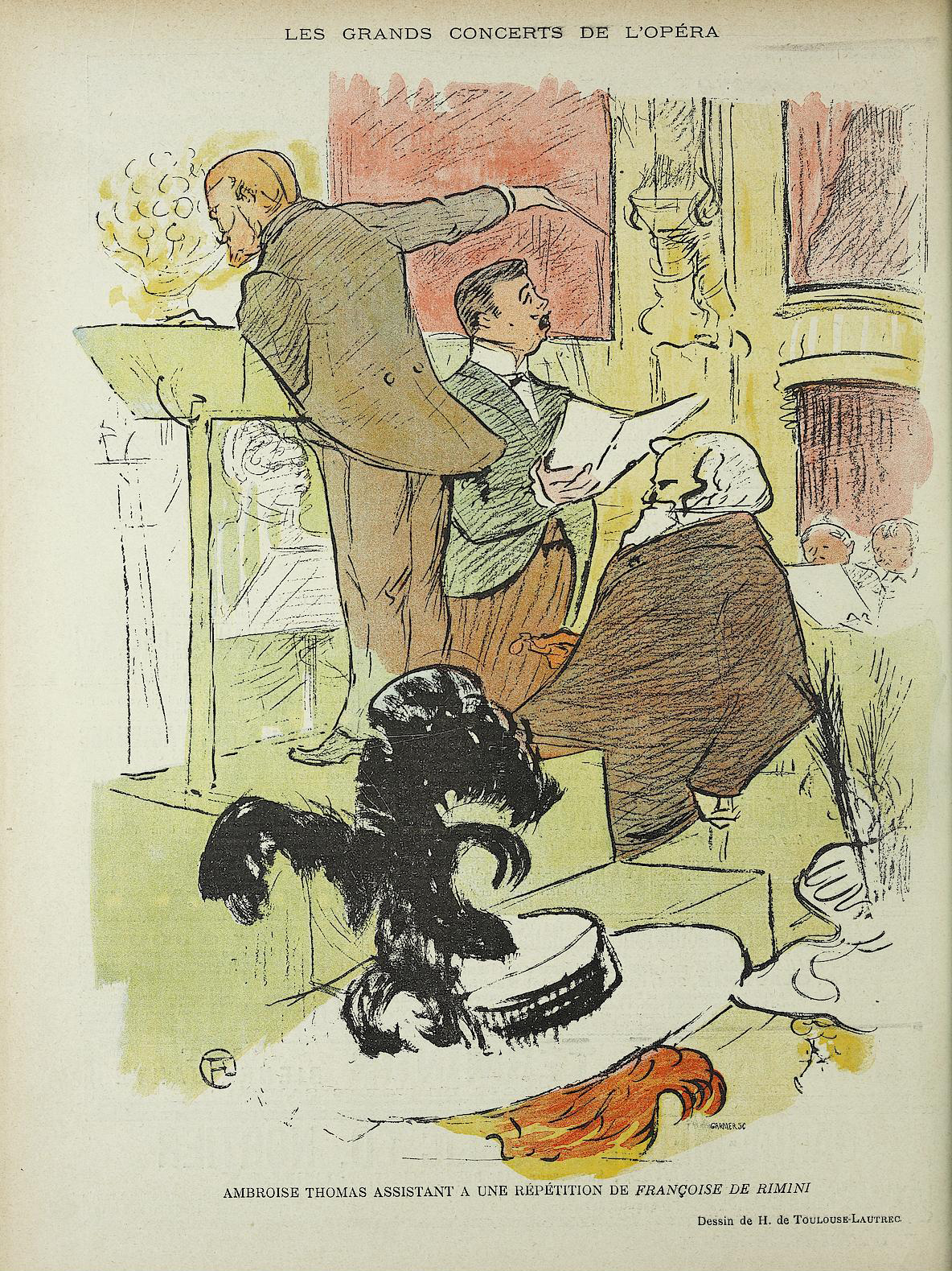 Caricature in Le Rire, n°66. The composer Ambroise Thomas (seated in the armchair behind the conductor) is depicted at a rehearsal for concert of his work which included the Prologue to his 1882 opera Françoise de Rimini. Lautrec made the sketch in January 1896. It was one of the last depictions of Thomas who died the following month. See: Masson, Georges (2011). Bicentenaire Ambroise Thomas: «Françoise de Rimini», son ultime opéra, p. 72. Cercle Lyrique de Metz